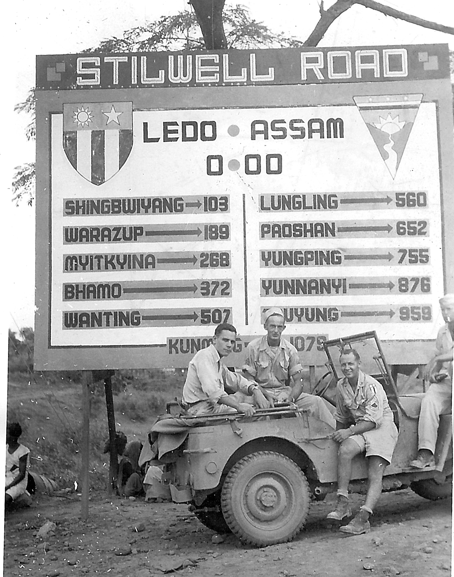 American GI's at the Stilwell Road sign in Ledo circa 1944-45